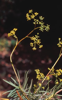 According to IUCN/SSC specialists this is one of the most endangered species of island floras in the Mediterranean area.